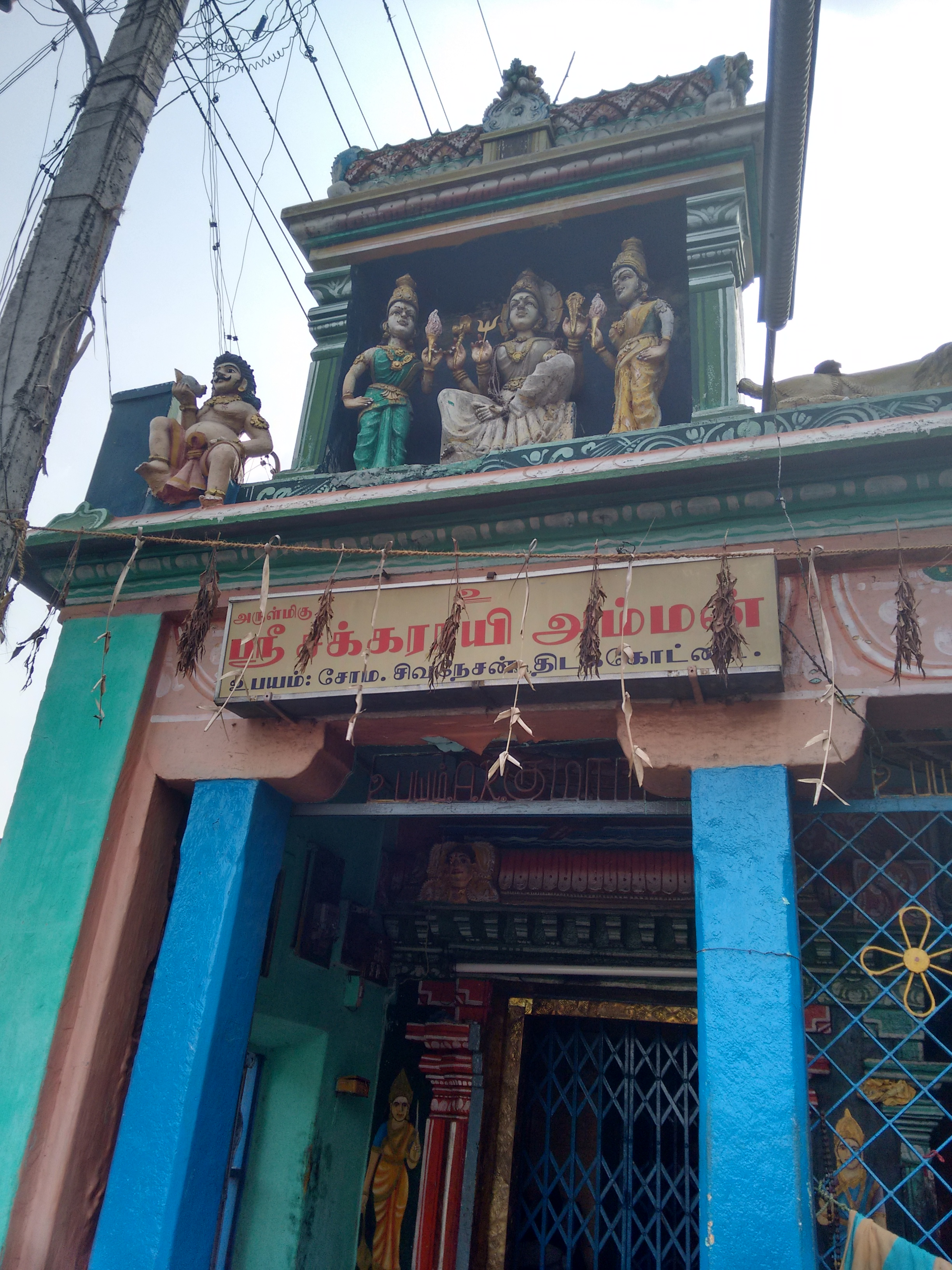 Pettai street sakkrayi amman பேட்டைத்தெரு சக்கராயி அம்மன்